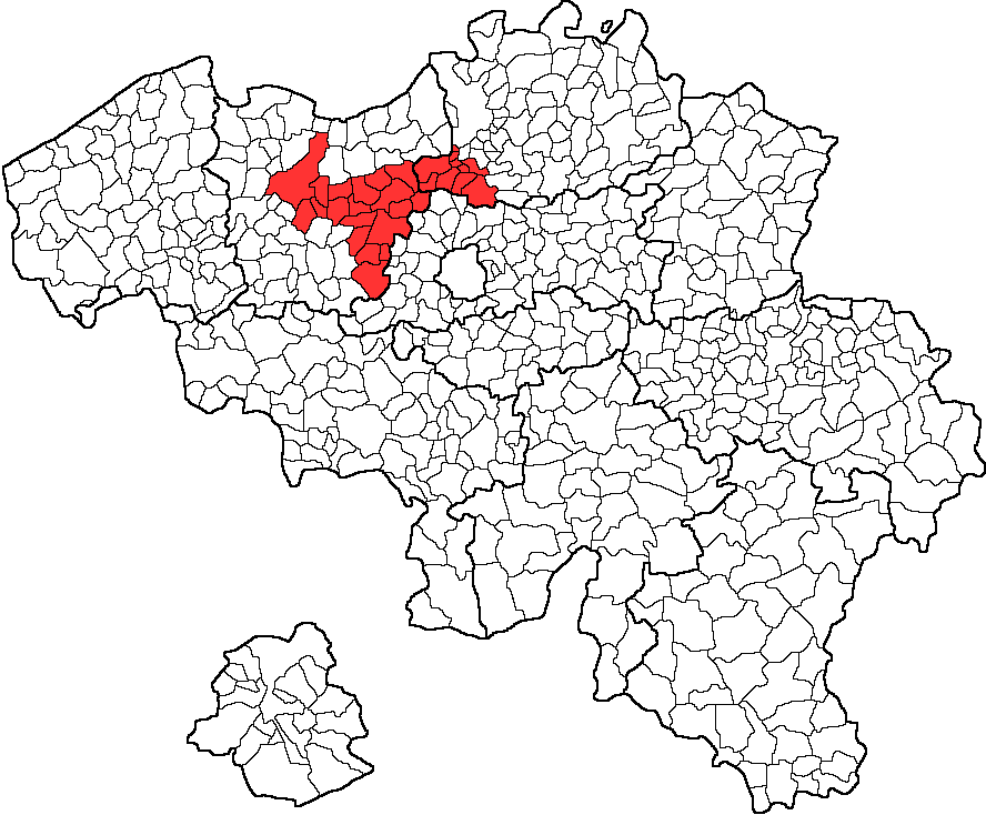 Municipalities in the region Scheldeland, Belgium